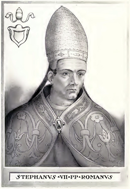 This illustration is from The Lives and Times of the Popes by Chevalier Artaud de Montor, New York: The Catholic Publication Society of America, 1911. It was originally published in 1842. Before Pope-elect Stephen was removed from most lists of popes,Stephen VI was referred to as Stephen VII.